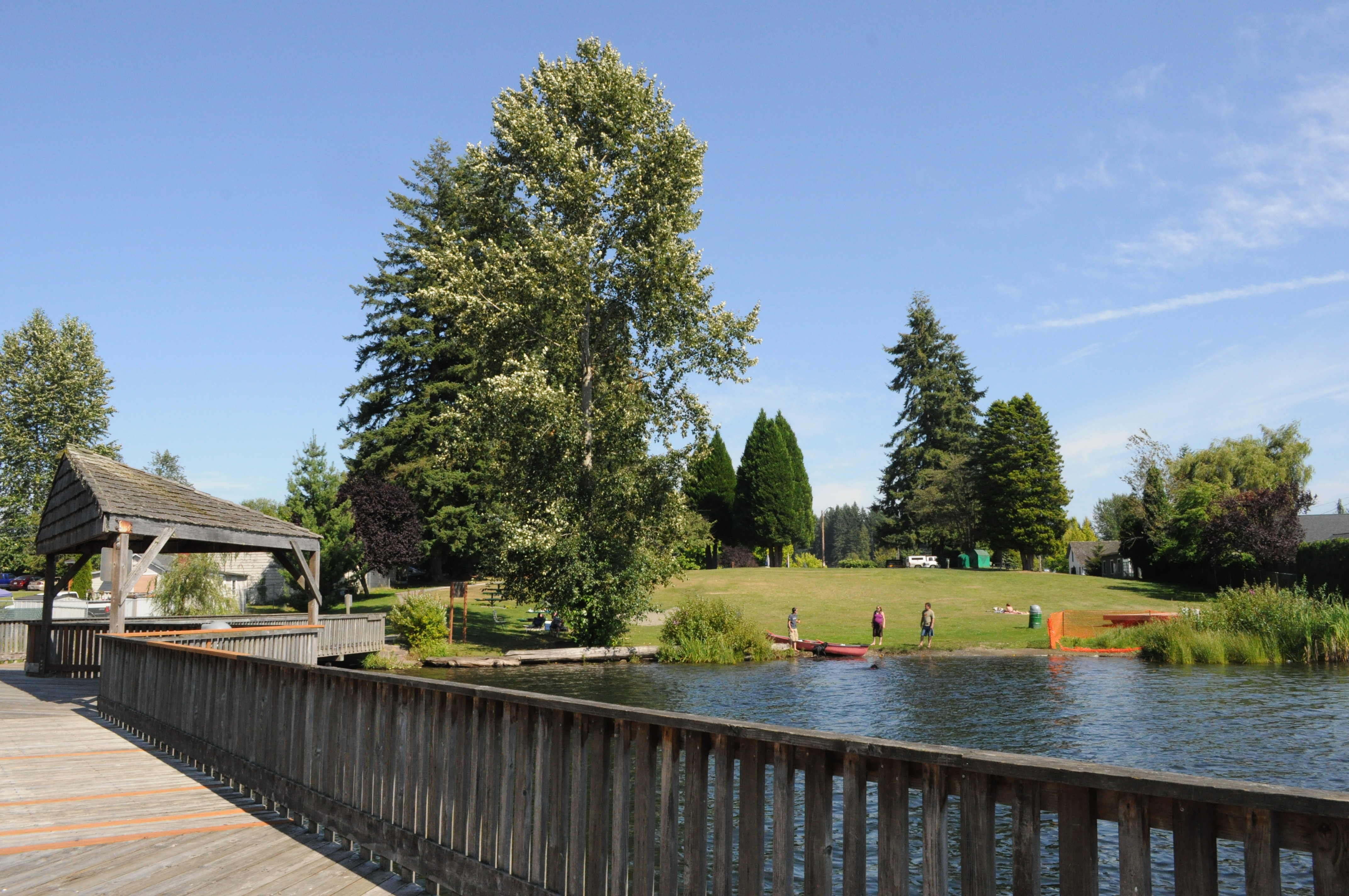 North Cove Park, Lake Stevens, Washington, USA.